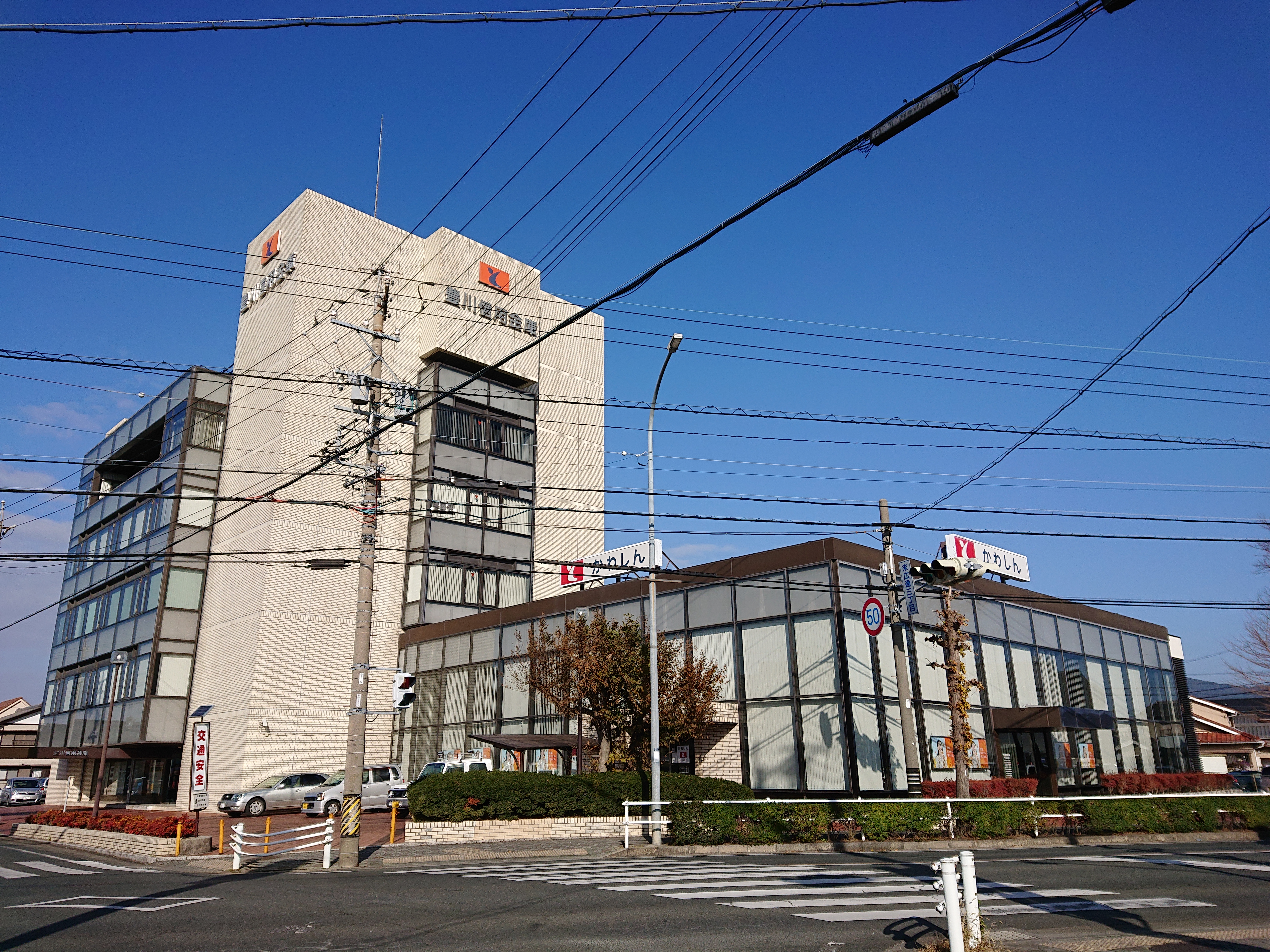 Toyokawa Shinkin Bank headquarters, at 3-34-1 Suehiro-dōri, Toyokawa, Aichi, Japan